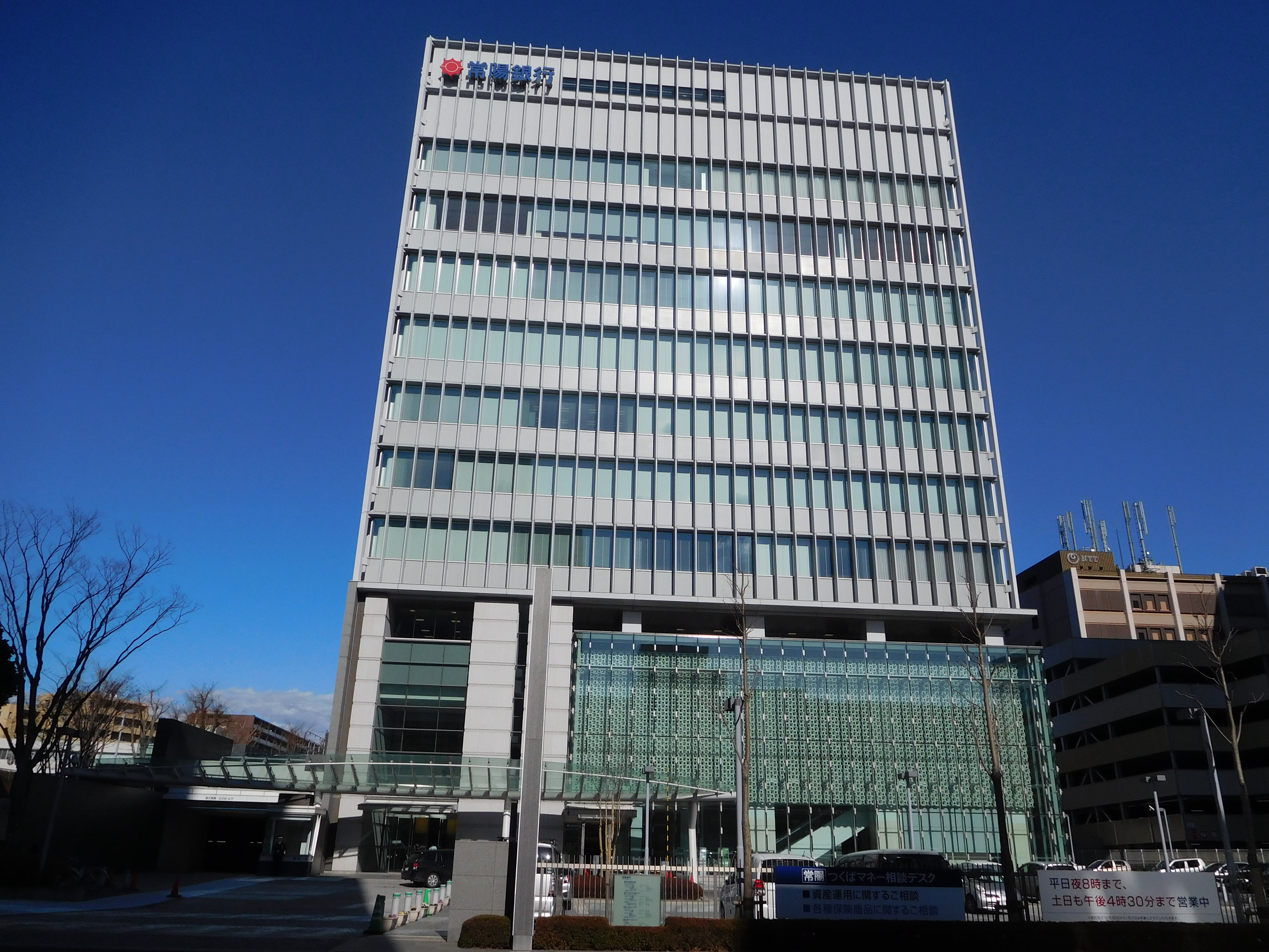 Joyo Bank Kenkyu-gakuen-toshi Branch in Tsukuba,Japan.